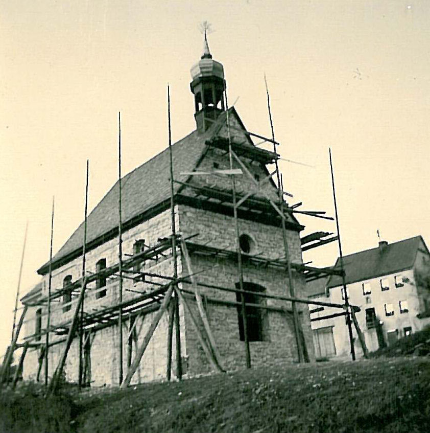 historic view of Laibarös, part of the municipality of Königsfeld